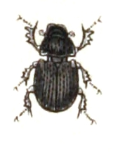 Ammoecius brevis, from Calwer's Käferbuch, Table 22, Picture 11. Taxonomy was updated to 2008, using mostly the sites Fauna Europaea and BioLib. Please contact Sarefo if the determination is wrong!